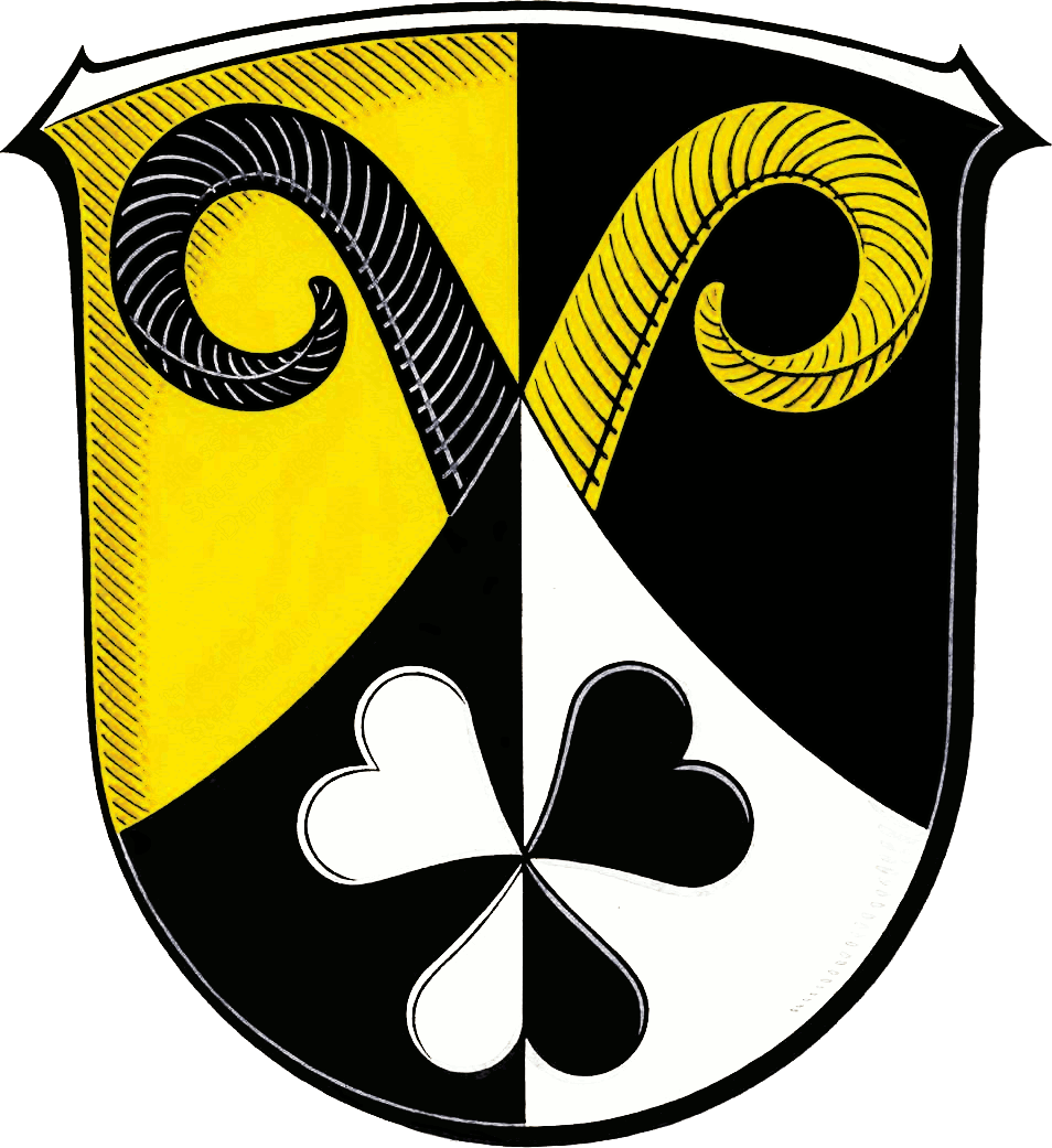 Coat of Arms of Buseck